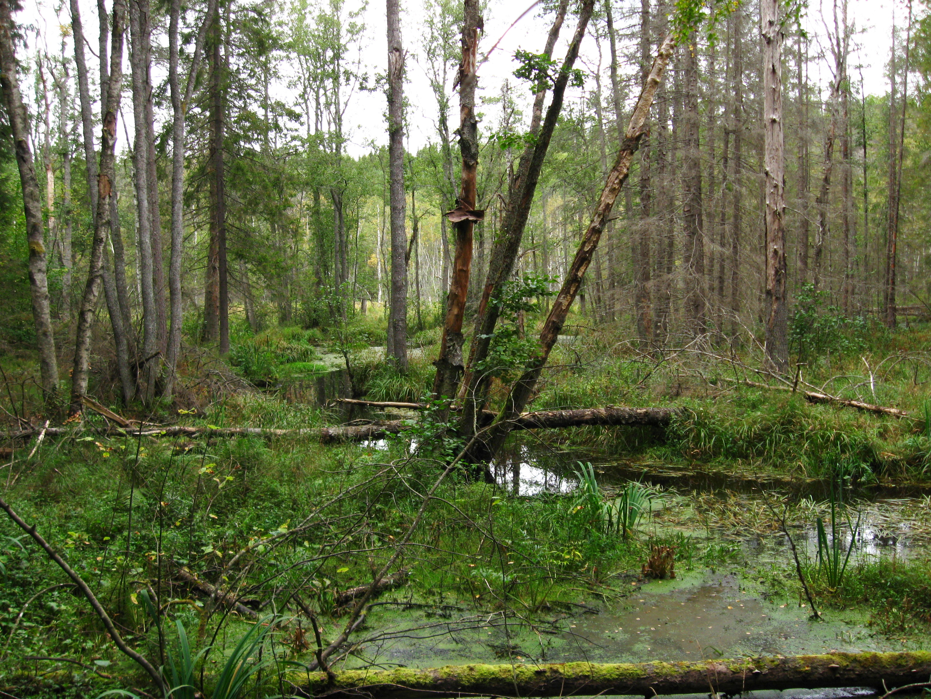 Wetland/swamps in a sarmatic forest near Lida (south of Stockholm).